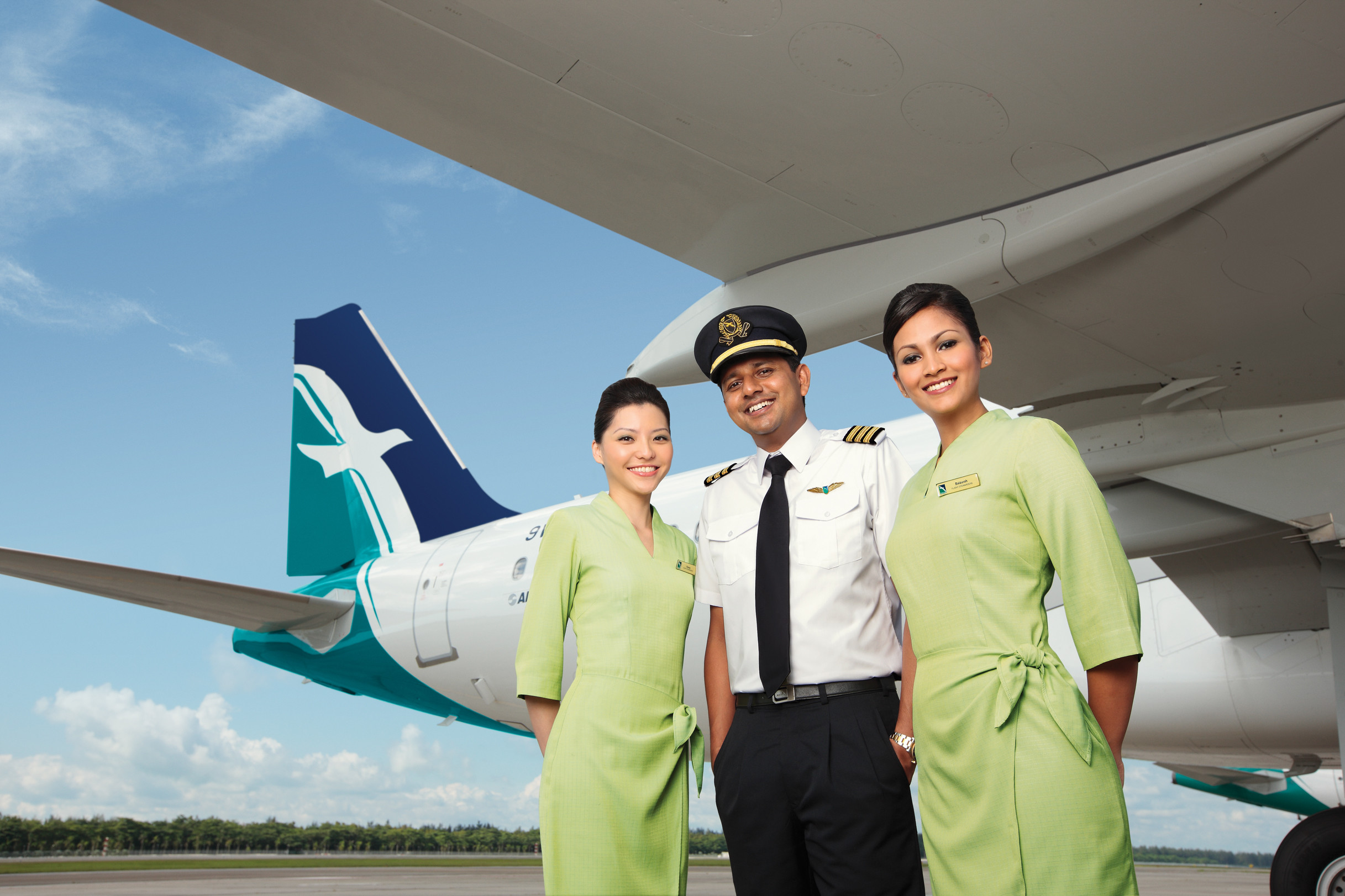 Silk Air flight and cabin crew